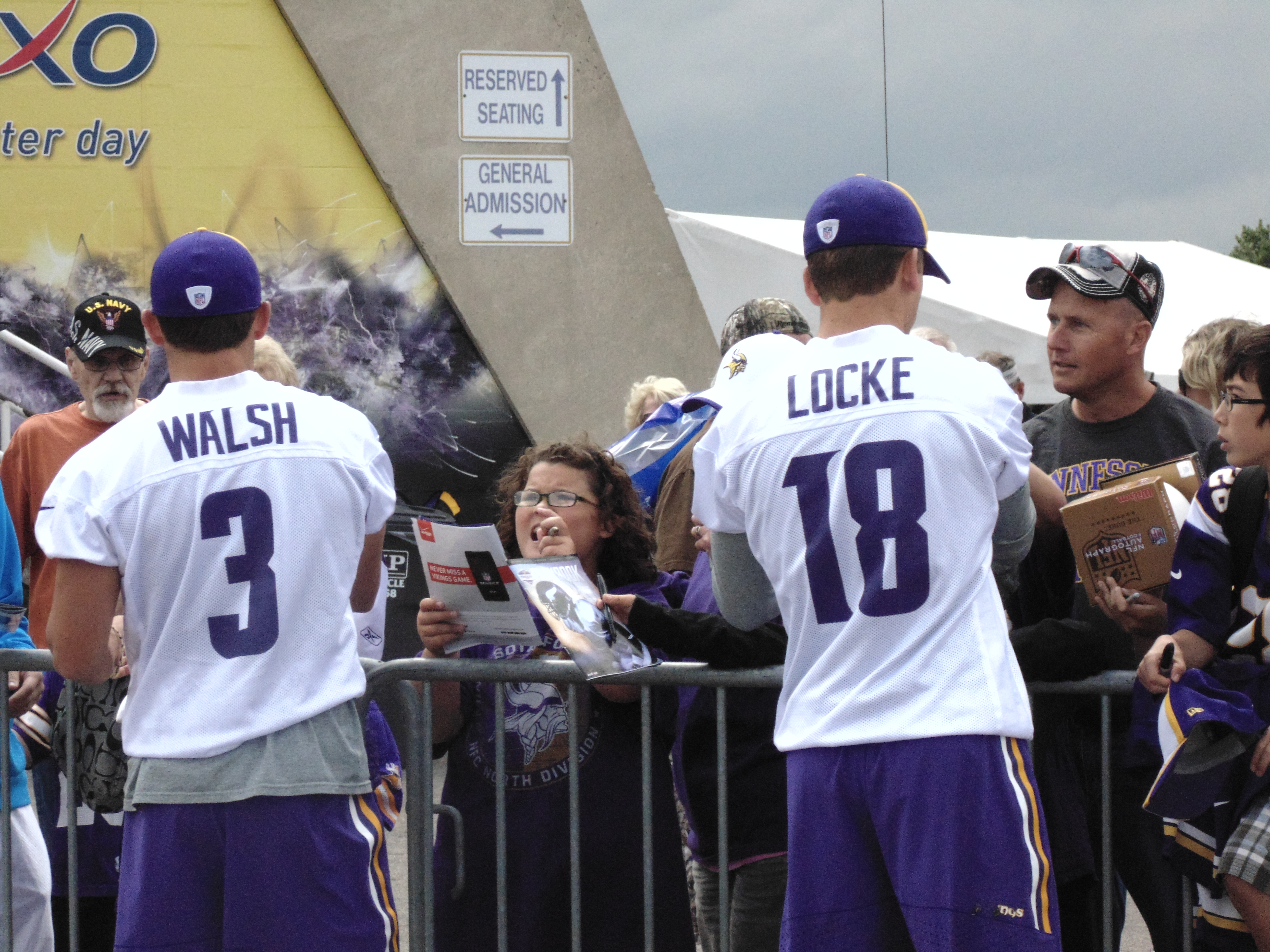 Jeff Locke signing autographs at the Vikings training camp in 2014.